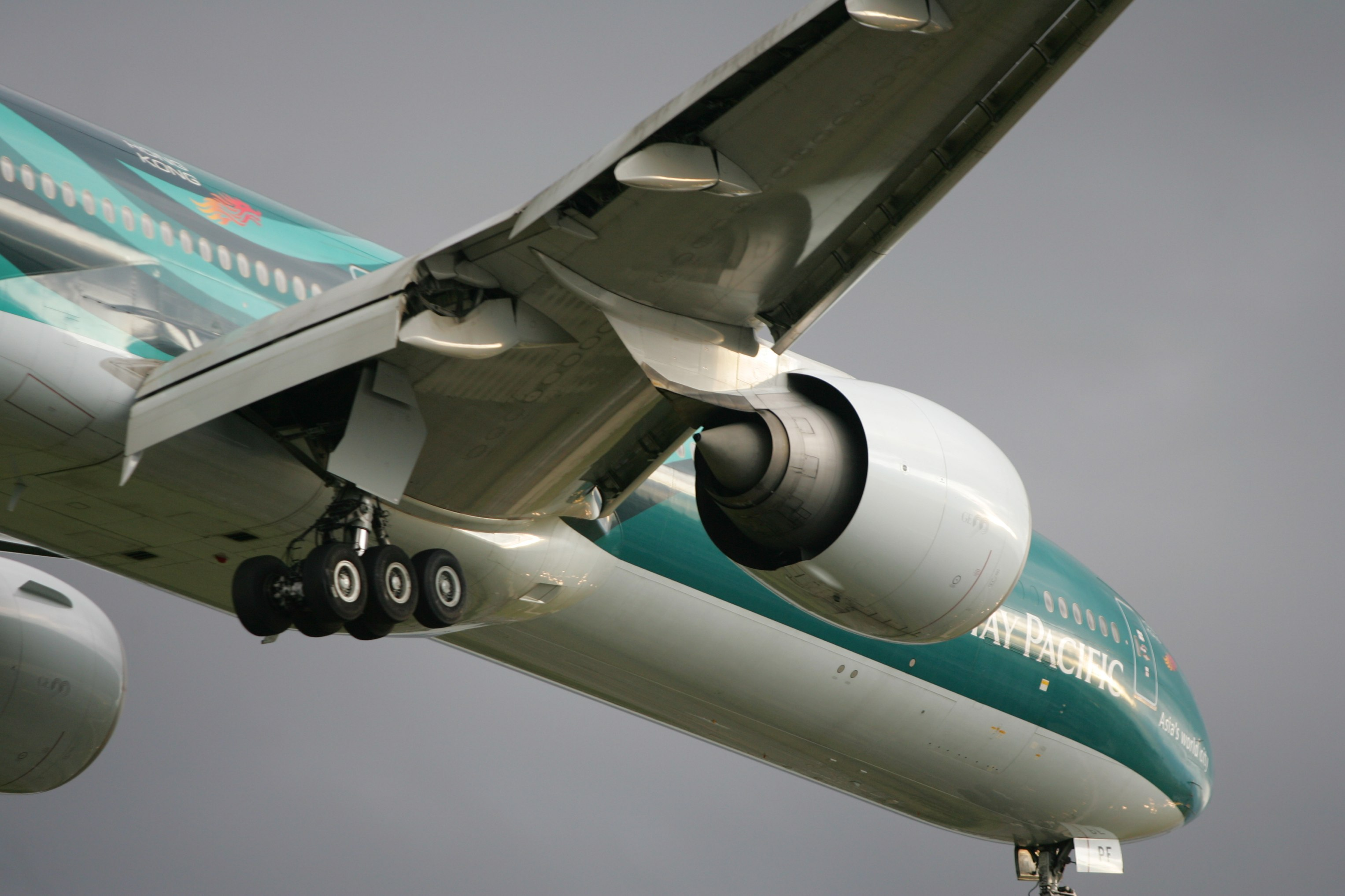 A Cathay Pacific Boeing 777-300 photographed shortly before landing